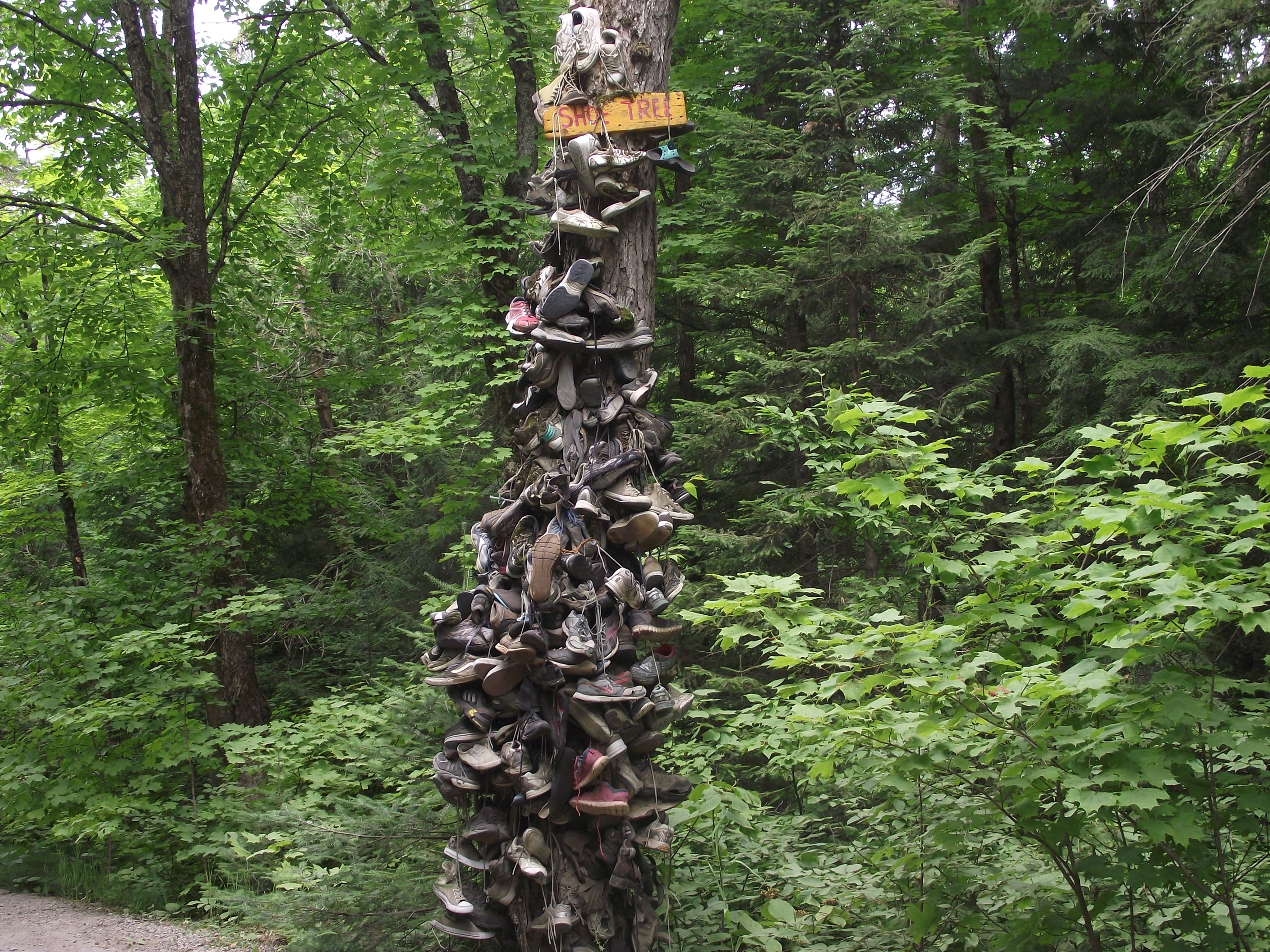 The Shoe Tree just outside the entrance of the Haliburton Scout Reserve, where the staff hang campers' lost shoes.